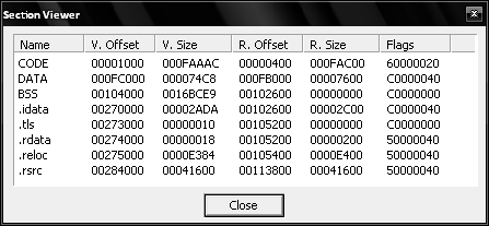 Sections of a program, shown by PEiD